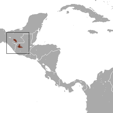 Guatemalan Broad-clawed Shrew (Cryptotis griseoventris) range